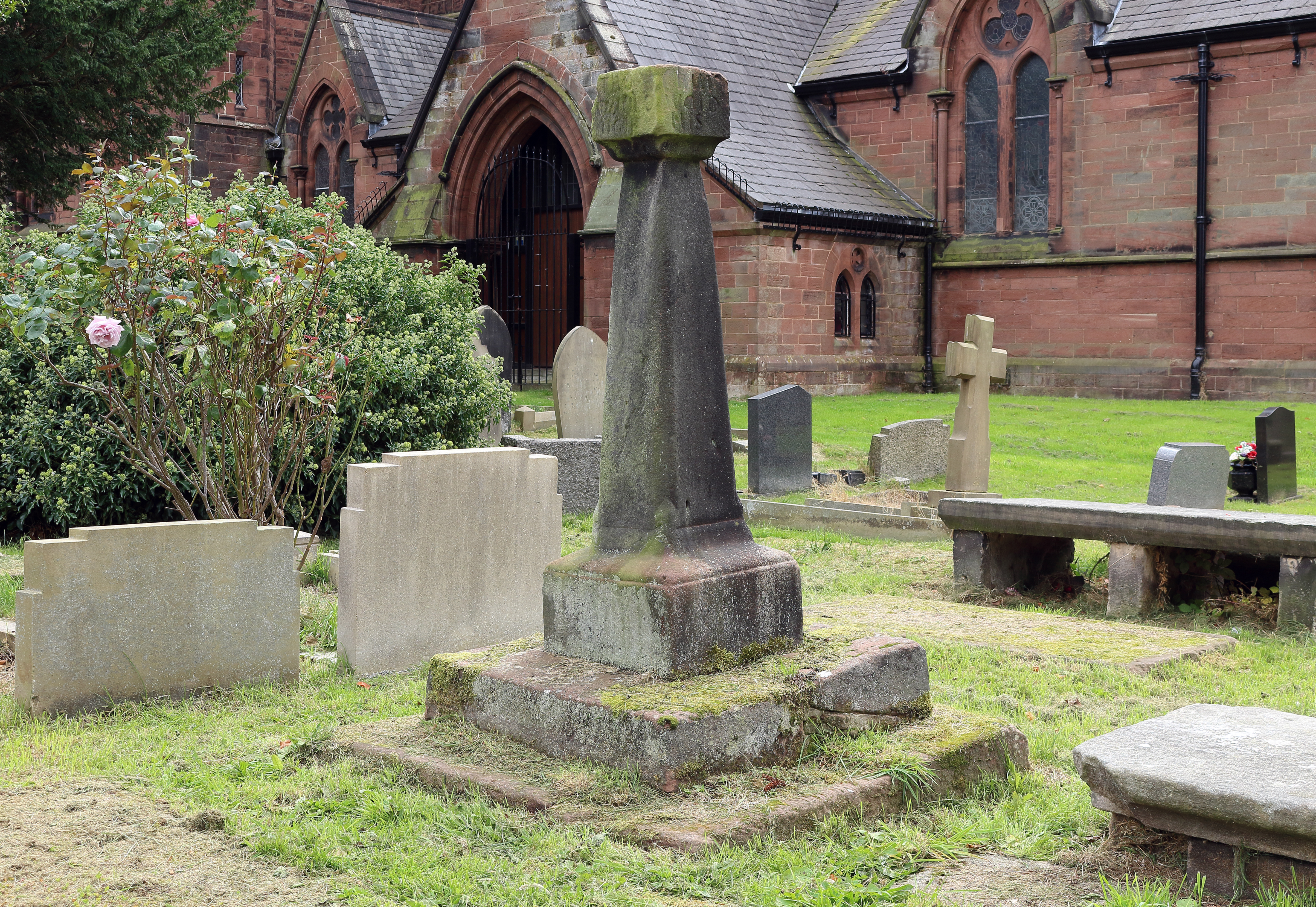 Grade II listed sundial, 1730 in the churchyard of St Barnabas, Bromborough. View showing context in relation to the church itself.